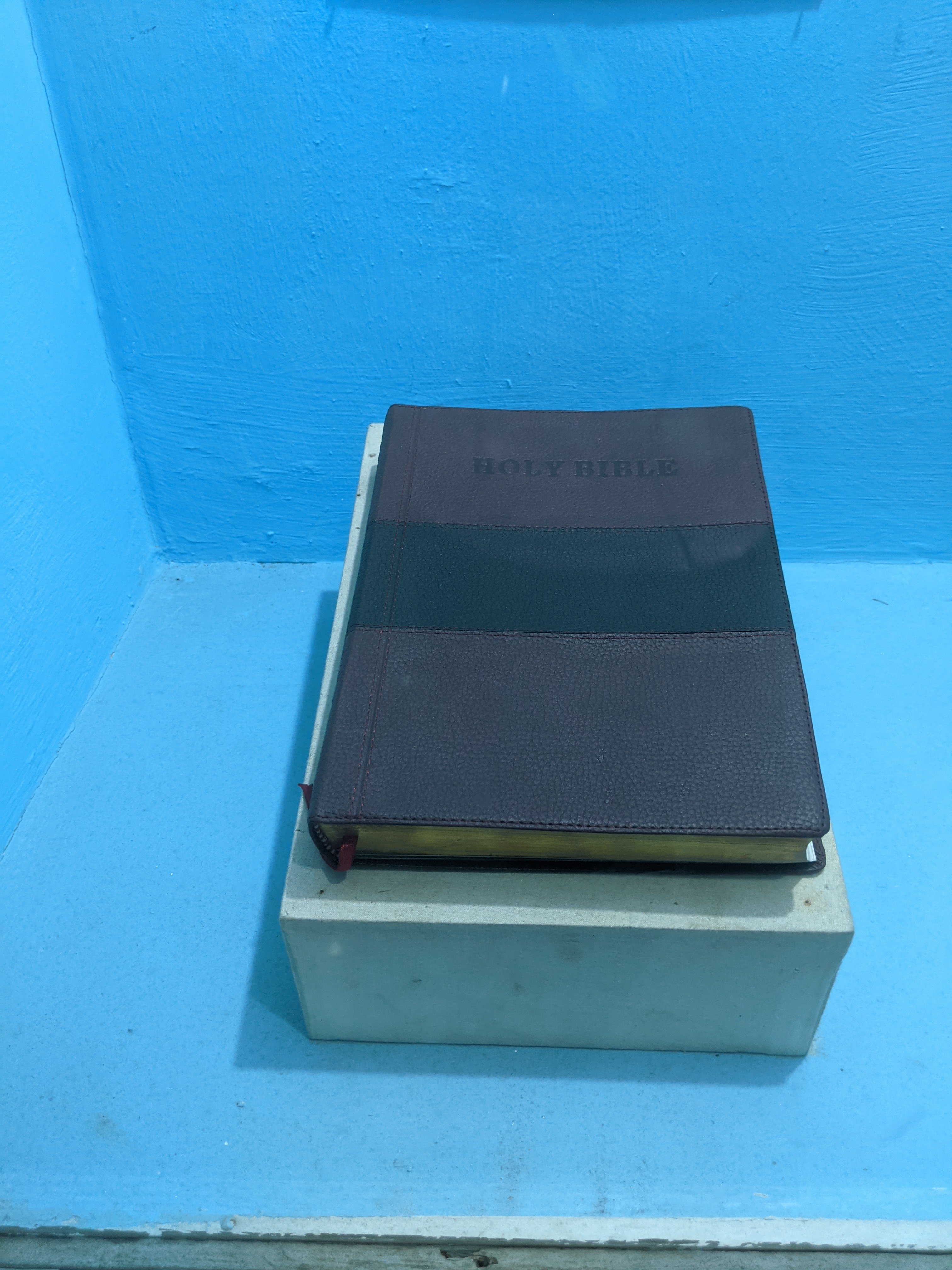 The Holy Bible